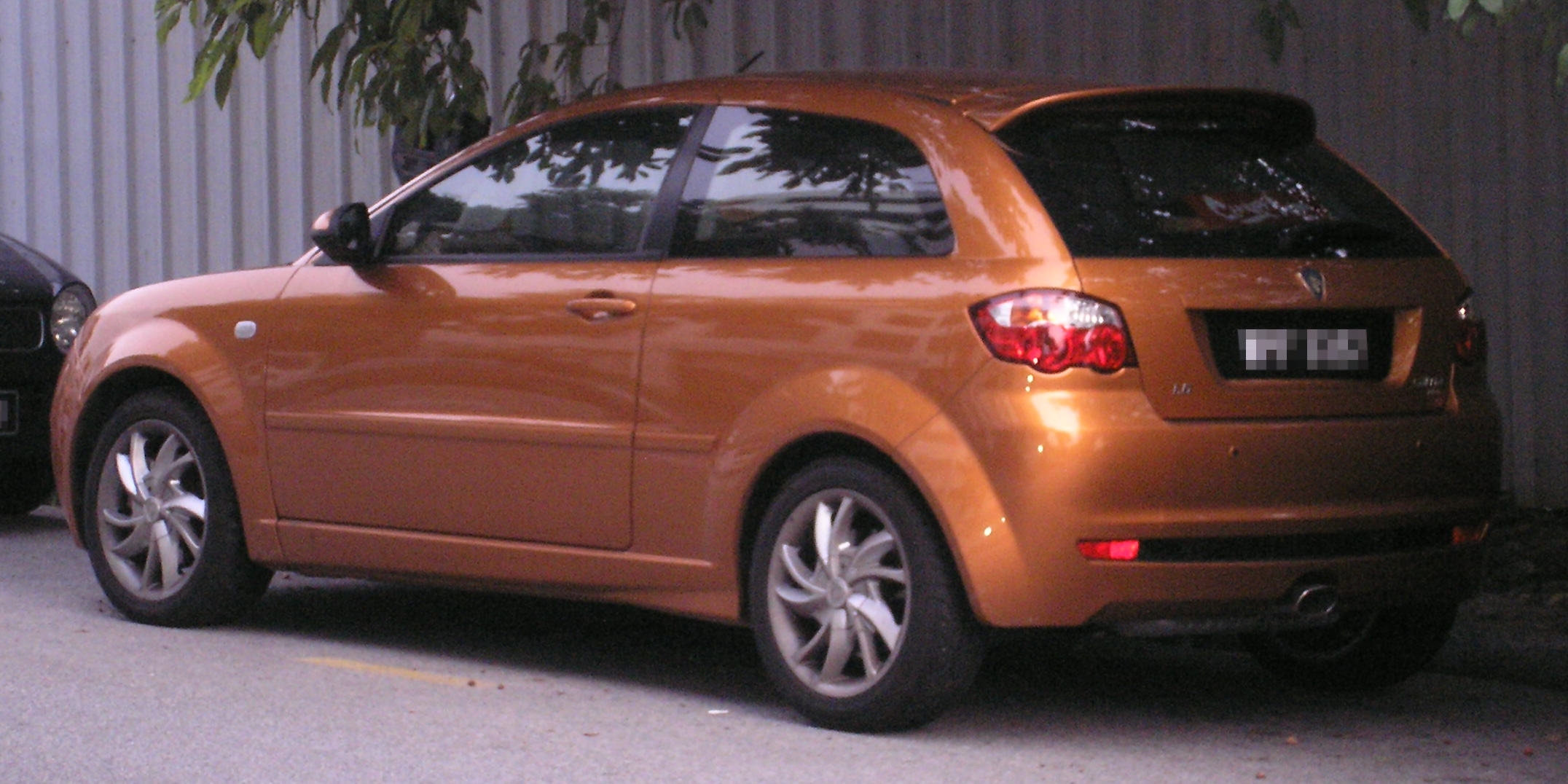 Rear-side shot of a Proton Satria Neo, in Kuala Lumpur, Malaysia.